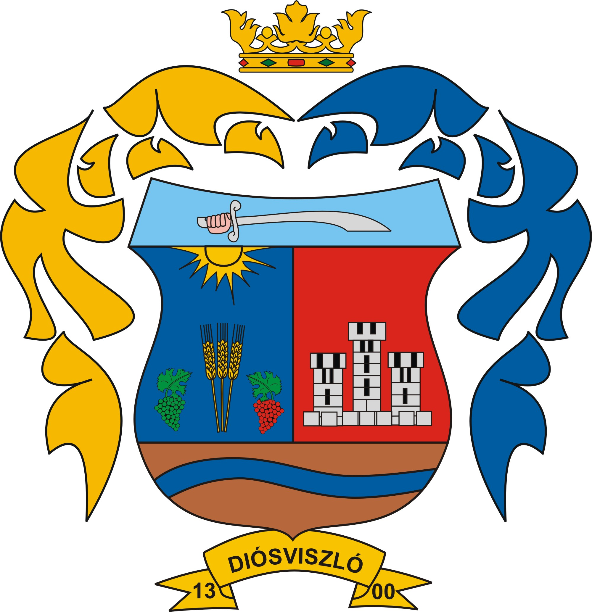 Coat of arms of Diósviszló, Hungary